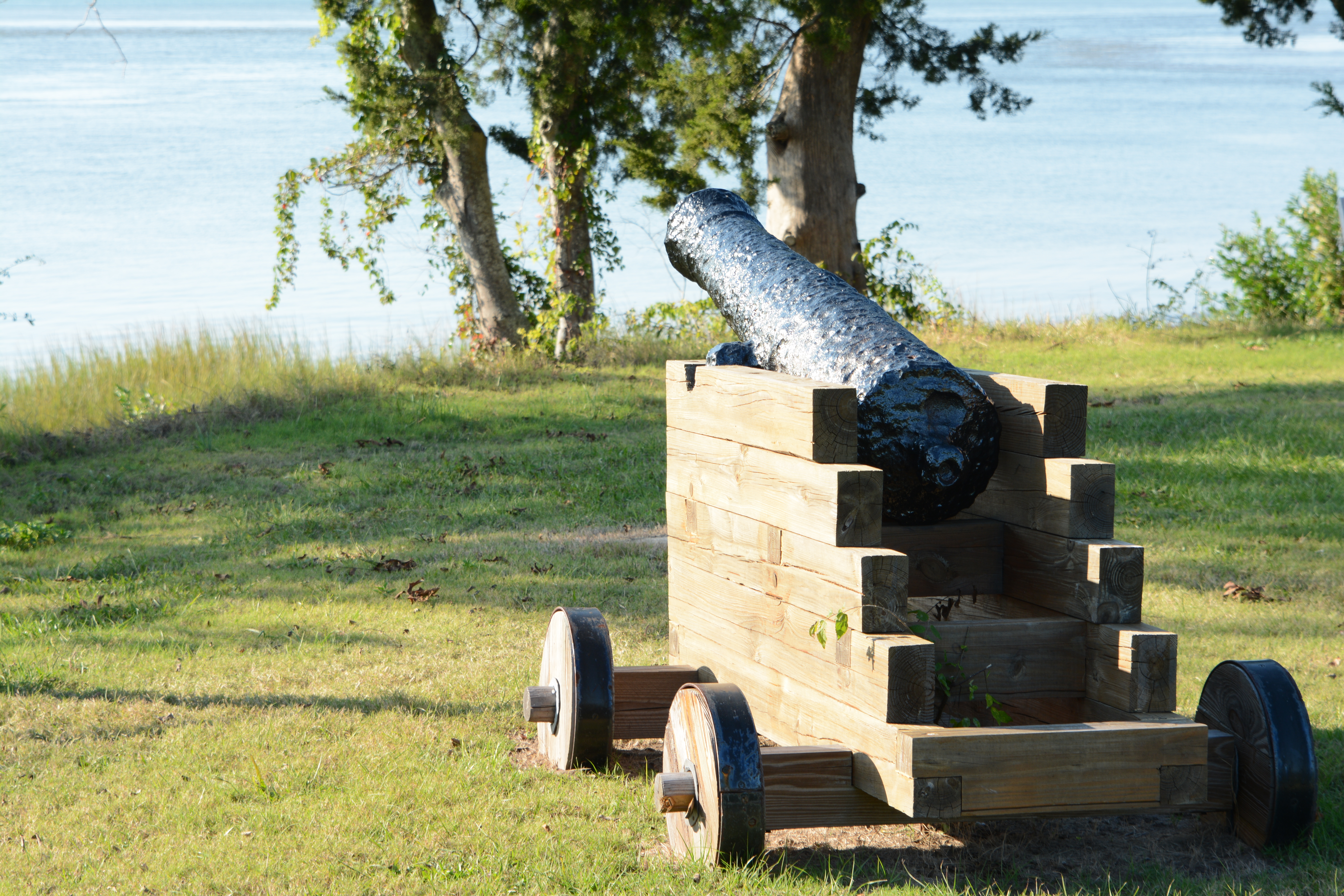 The original site of the town of fernandina, Florida, US